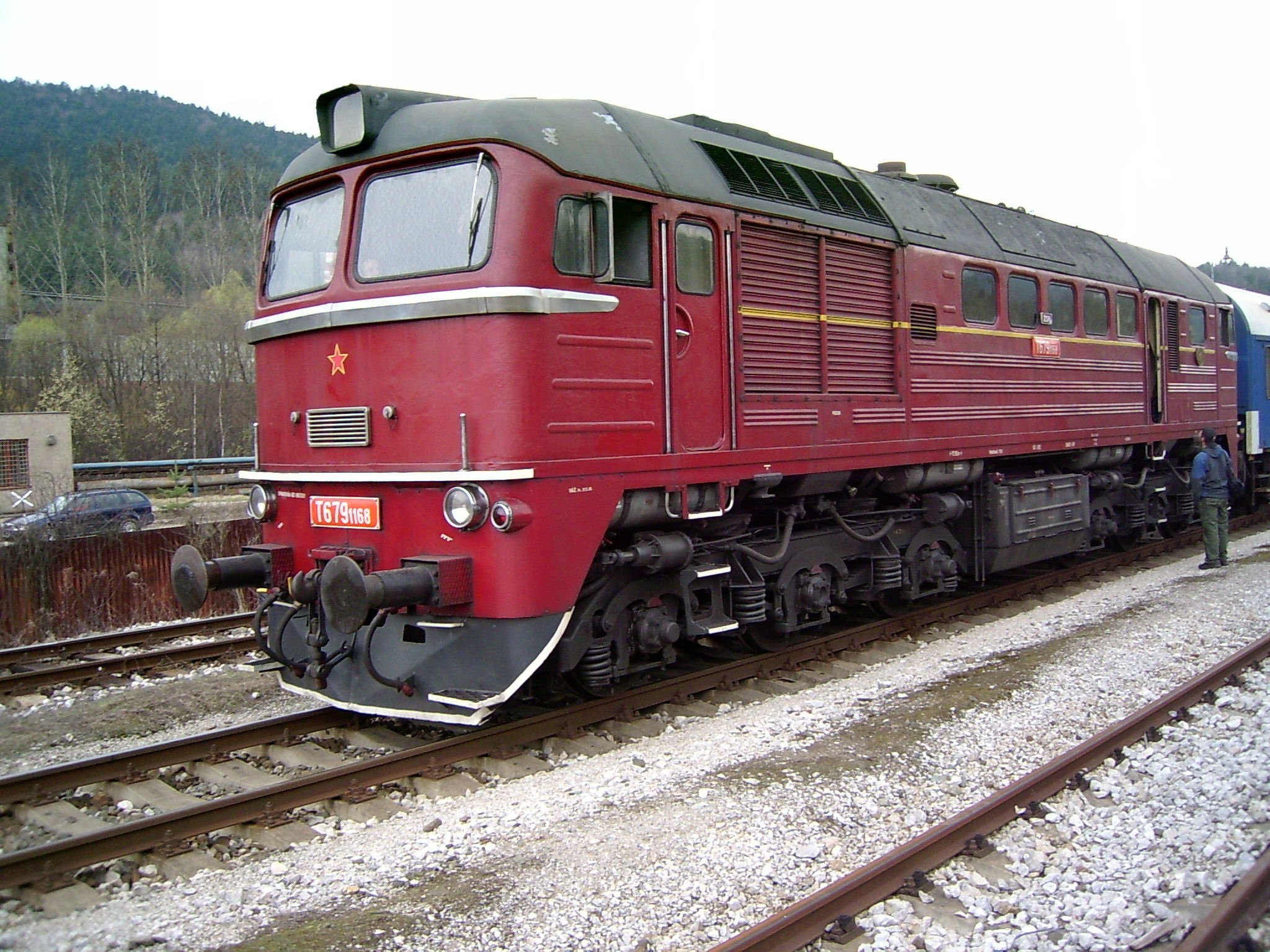 Diesel locomotive class 781 (ex T679.1) somewhere in Slovakia